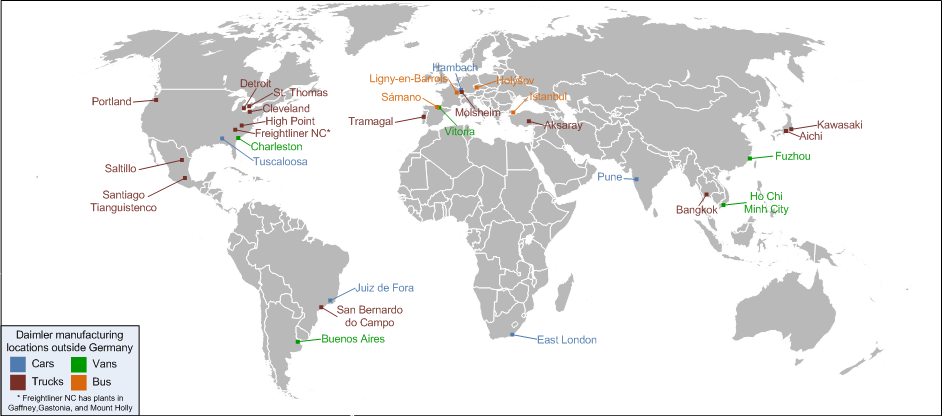 Map showing manufacturing locations of Daimler AG outside Germany.